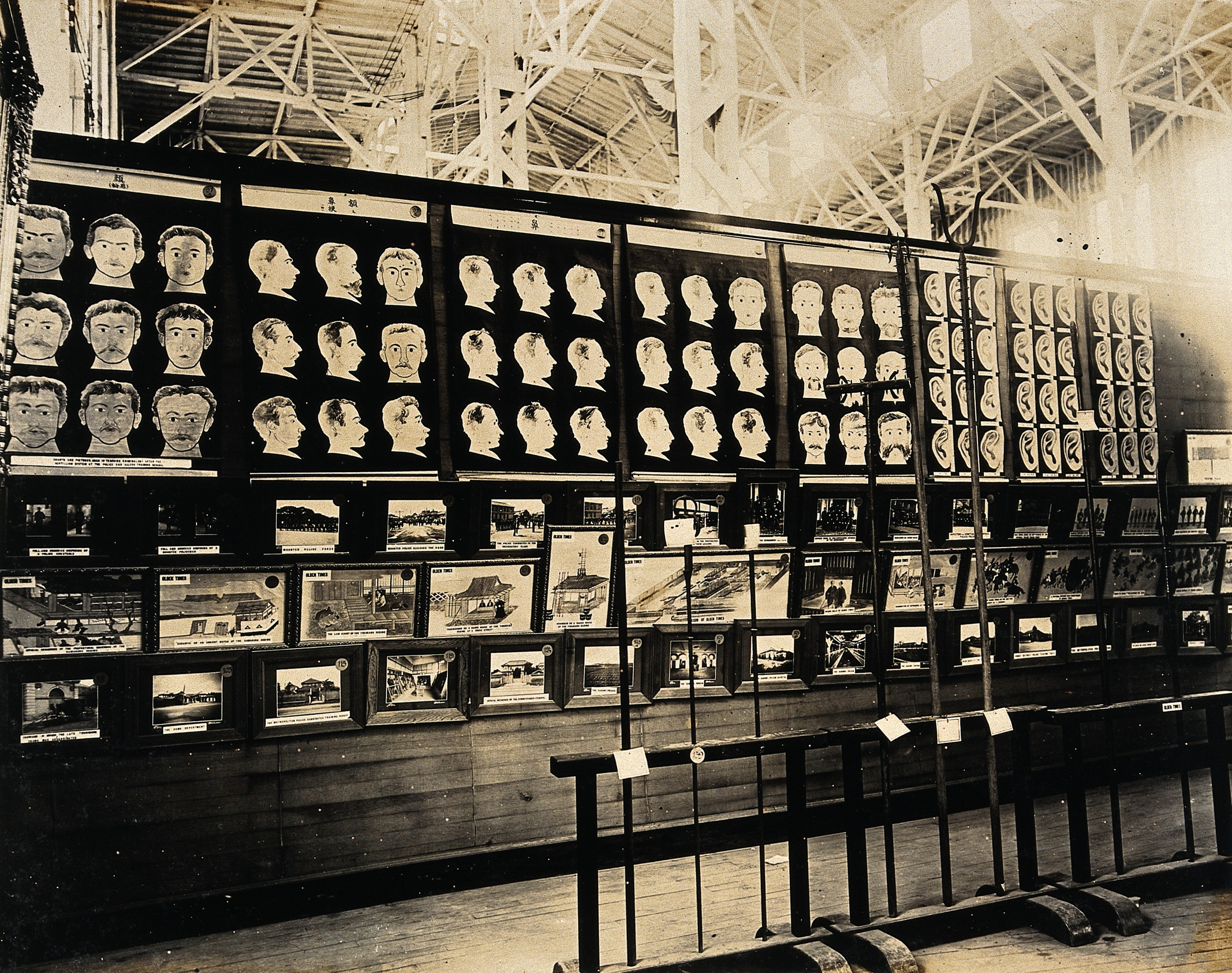 The 1904 Louis World's Fair, Missouri: a Japanese exhibit featuring criminal identification charts based on Alphonse Bertillon's system and framed images relating to Japanese law Iconographic Collections Keywords: Missouri; America; Criminal; Exhibition; Japanese